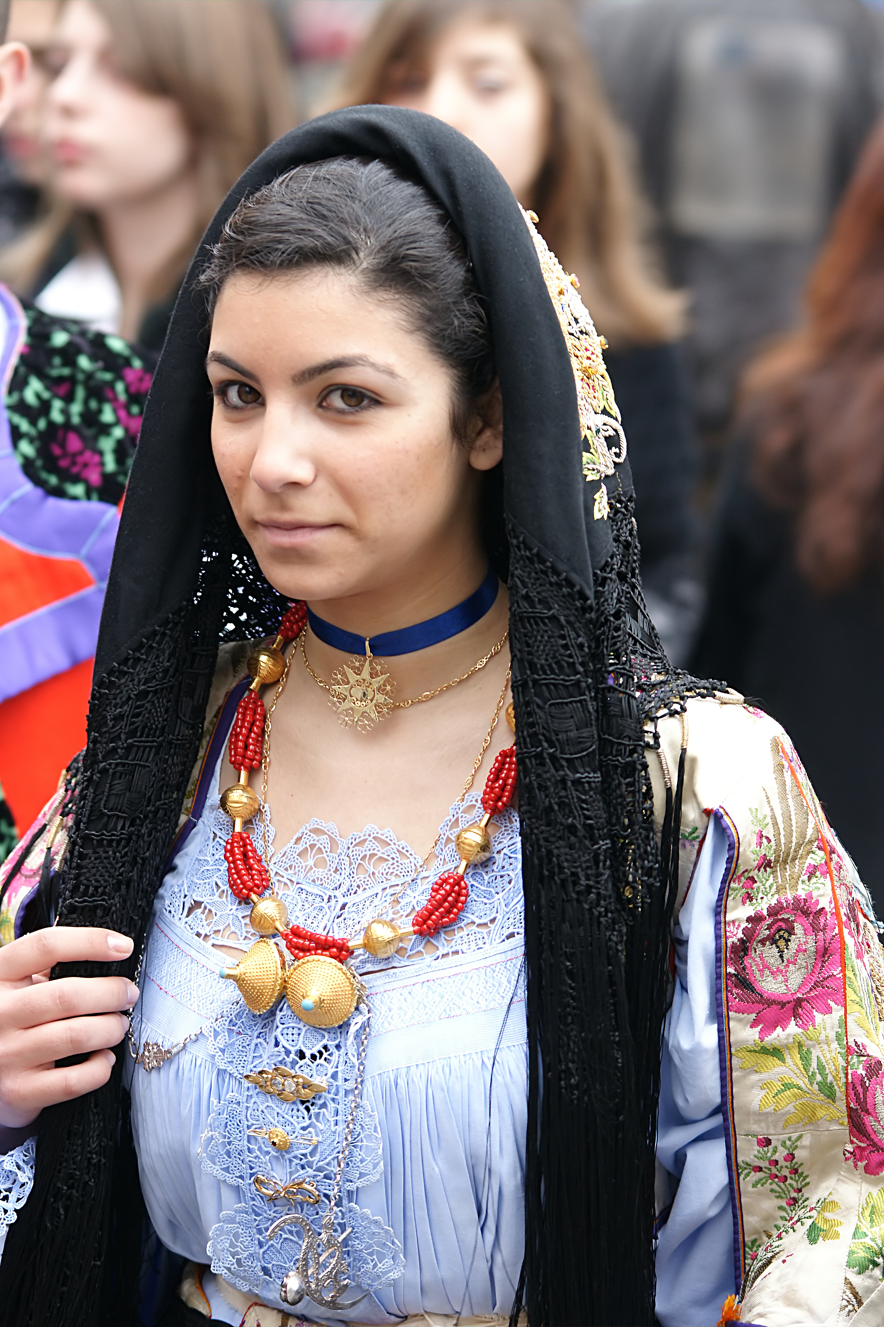 Traditional garments, worn at special occasions (here Easter) in the Village of Oliena, Sardinia, Italy